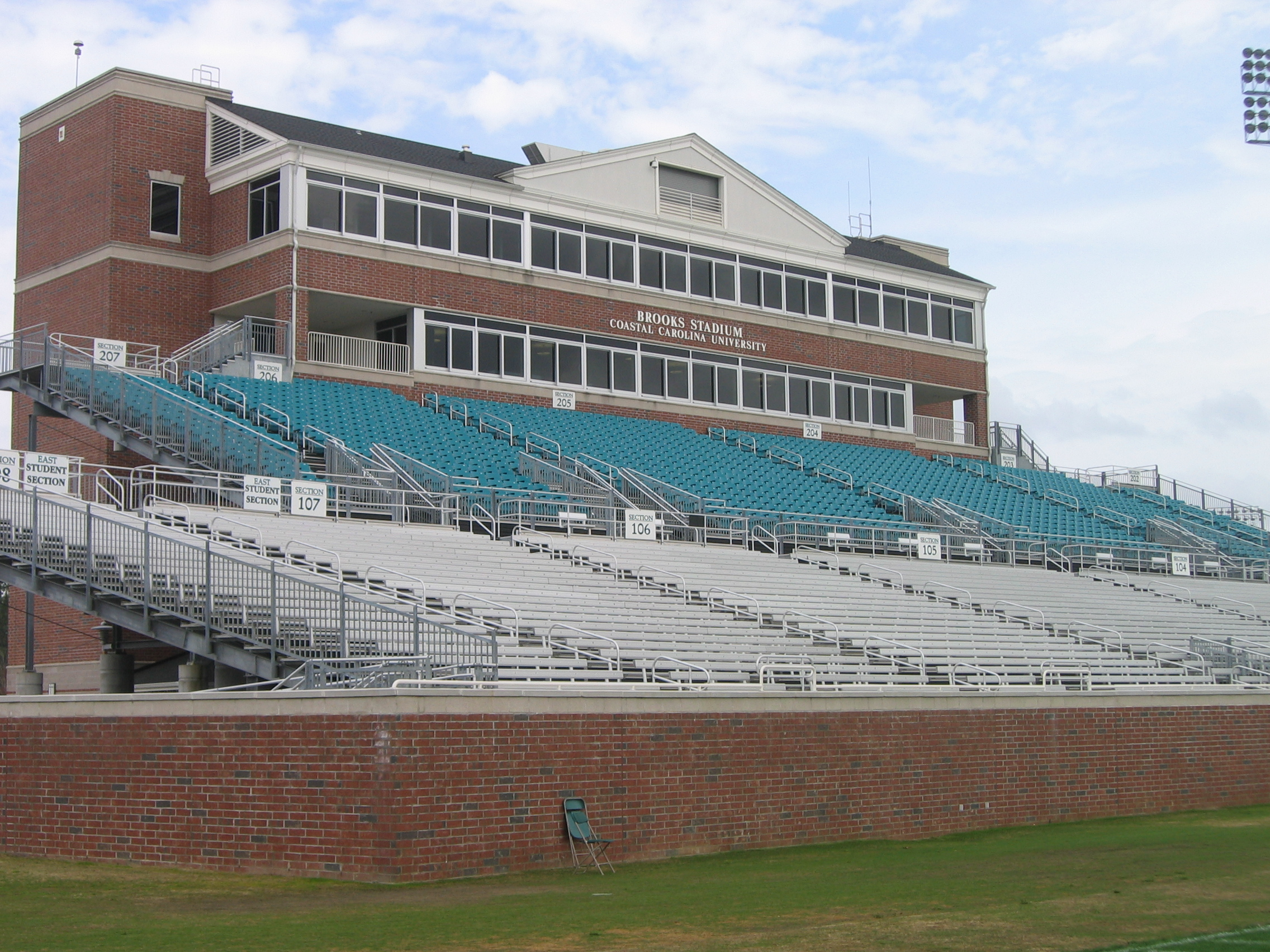 Football & Basketball Facilities Coastal Carolina Football Stadium